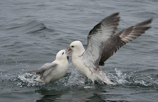 Fulmars determine the pecking order in the Moray Firth.